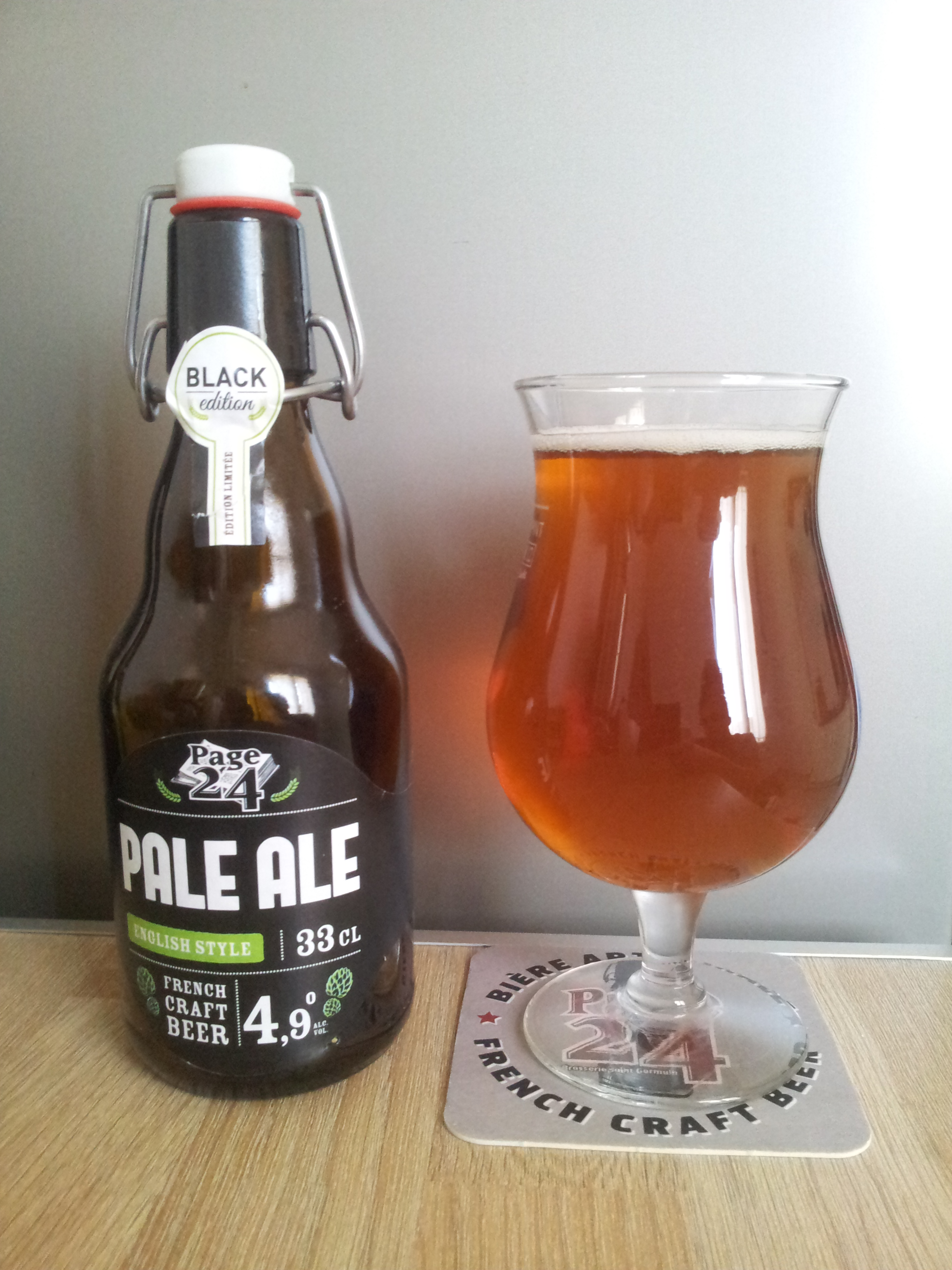 Page 24 Pale Ale beer